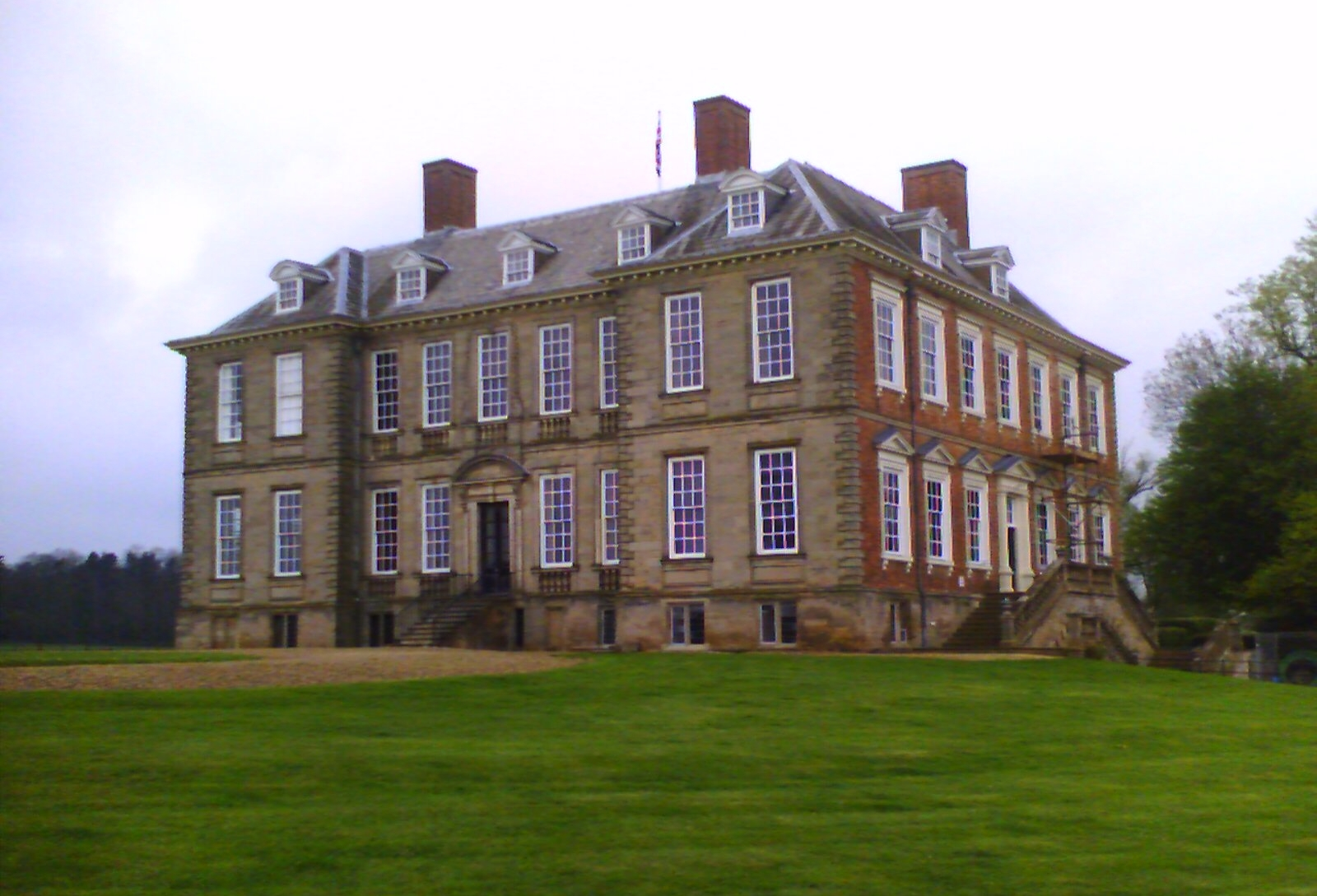 Stanford Hall, Lutterworth, Leicestershire (England) Photo by Asterion talk to me